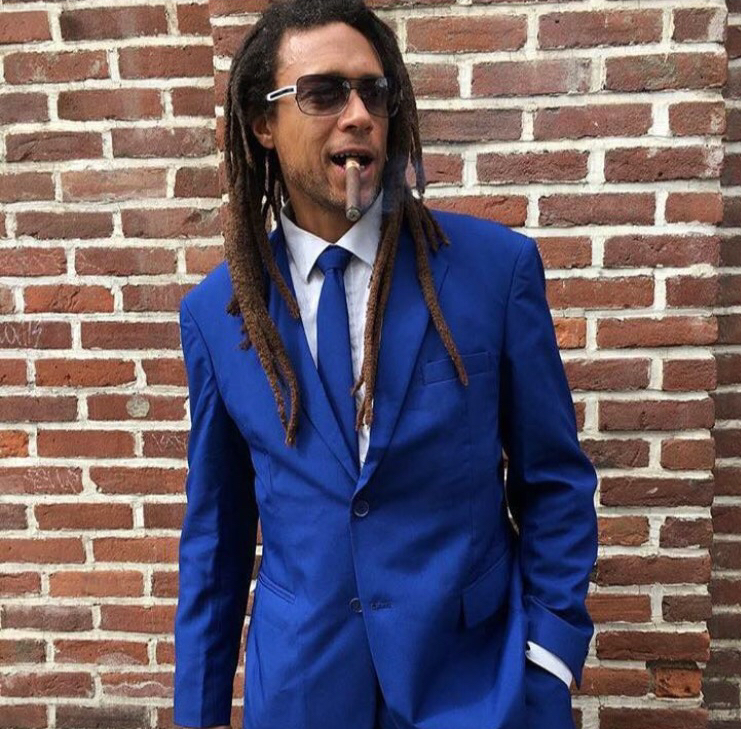 Hanging out in NYC with Chris Key